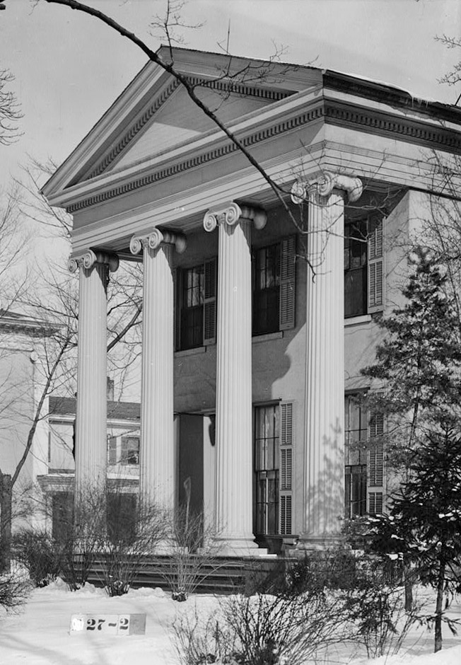 Judge Robert S. Wilson House, front facades — in Ann Arbor, Michigan. The Greek Revival style house is on the National Register of Historic Places in Washtenaw County. Image (1934): HABS—Historic American Buildings Survey of Michigan.